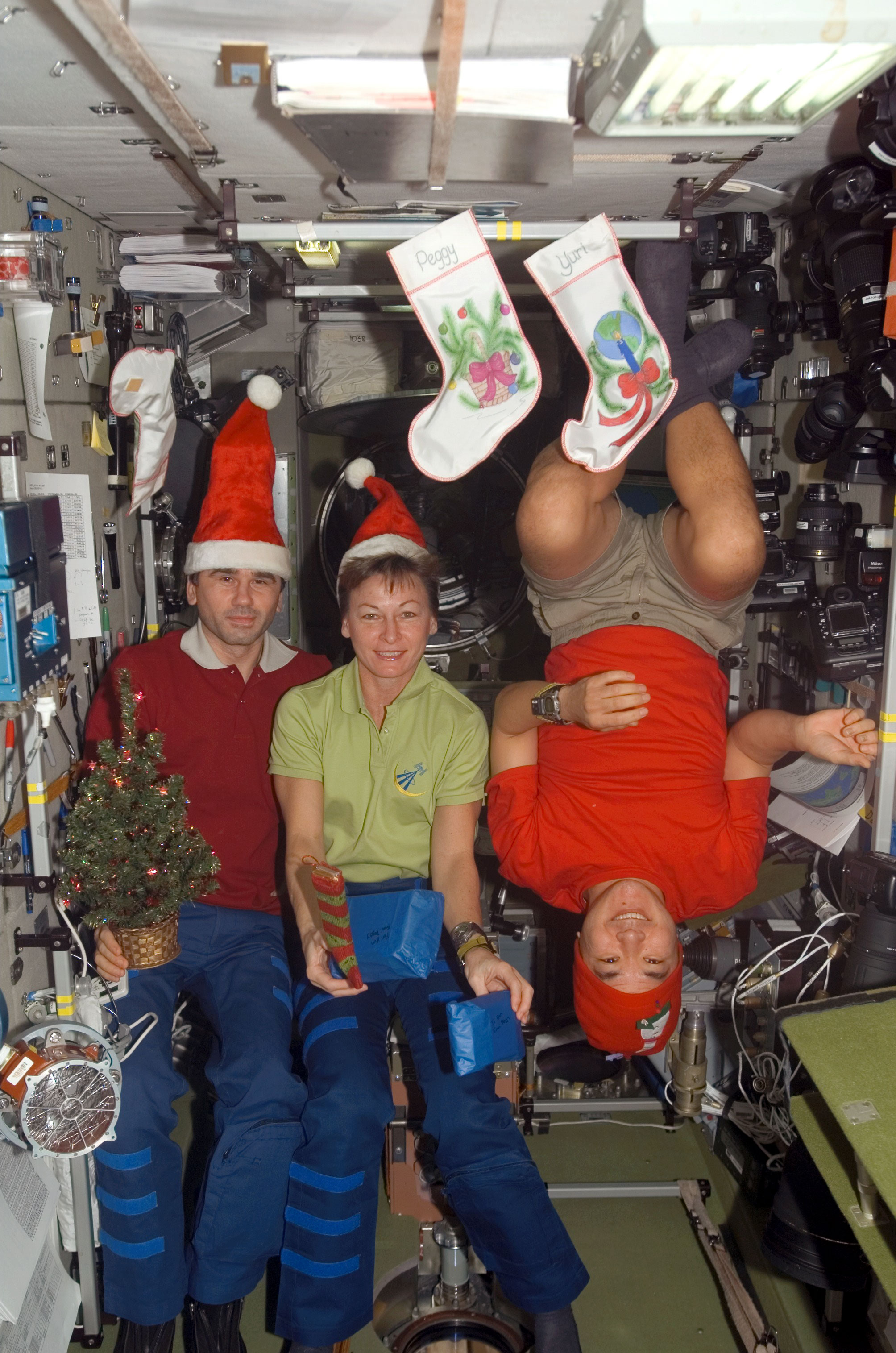 The Expedition 16 crew members pose for a Christmas photo in the Zvezda Service Module of the International Space Station. From the left are cosmonaut Yuri I. Malenchenko, flight engineer representing Russia's Federal Space Agency; NASA astronauts Peggy A. Whitson, commander; and Daniel Tani, flight engineer.